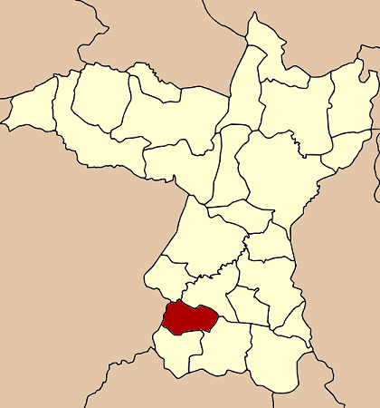 Map of Khon Kaen Province, Thailand, highlighting the district Waeng Yai (อำเภอแวงใหญ่)